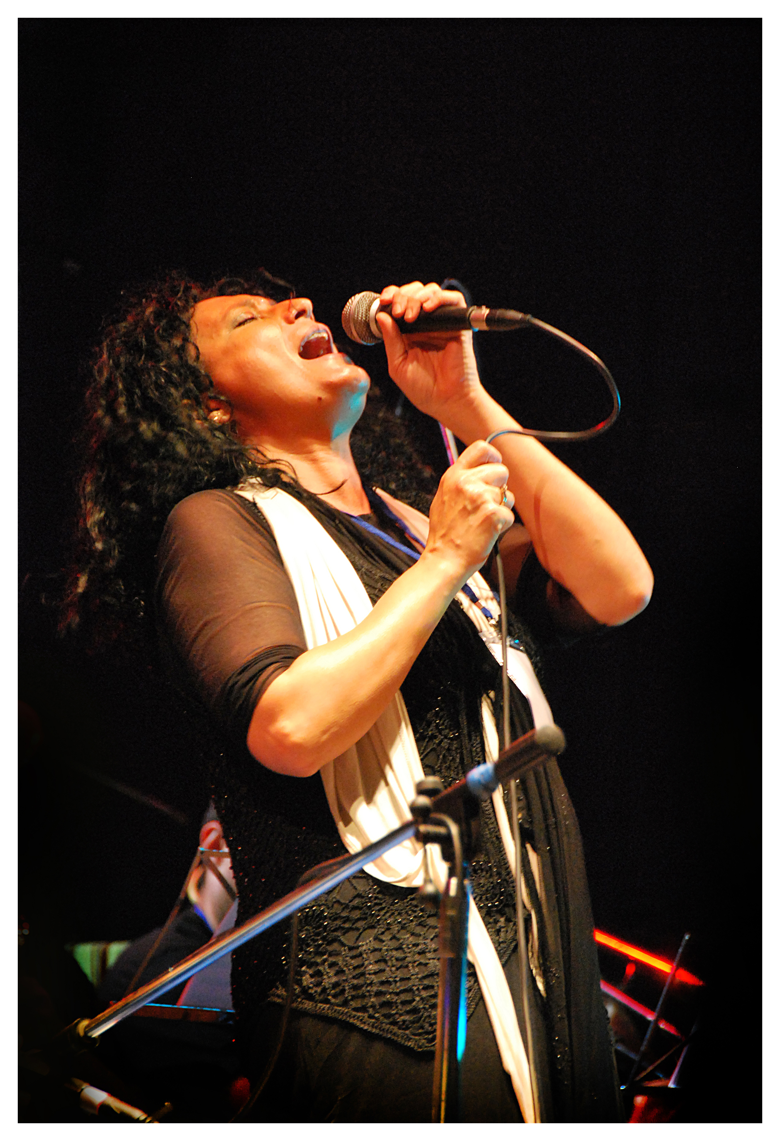 Antonella Costanzo (Piccola Orchestra La Viola) @ Liri Blues 2010